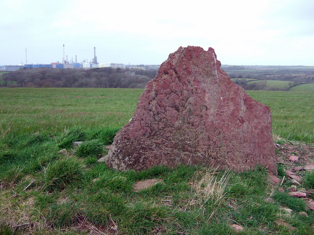 Liddeston "Long" Stone The surviving stump of this standing stone is presumably an abbreviated version of its former stature - unless its name was intended ironically! Fragments of the old red sandstone of which it is formed lie crumbled around the base and it can only be a matter of time before the entire stone is weathered out of existence, or ploughed under. The situation is the crest of a hill close to two ancient fortifications and the present-day village of Liddeston. Across the valley to the west lies one of Milford's old oil refineries.